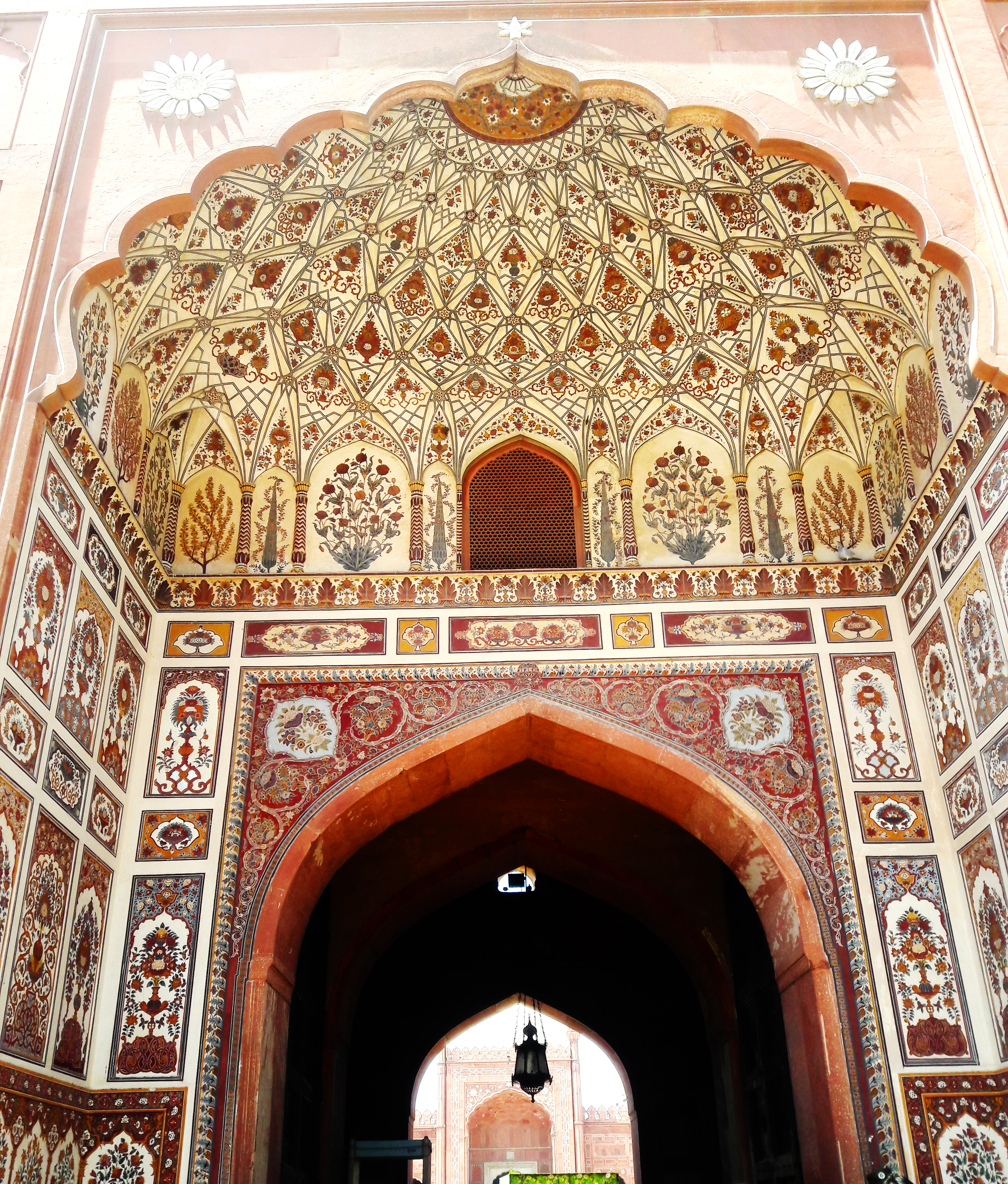 I Have Passion for Photography and I love to take photos no matter if it's from my Smartphone, I am a Mobile Photographer and Take photos from my Mobile as i cant afford any Camera but still Love to take photos and these type of Competetions encourage me.